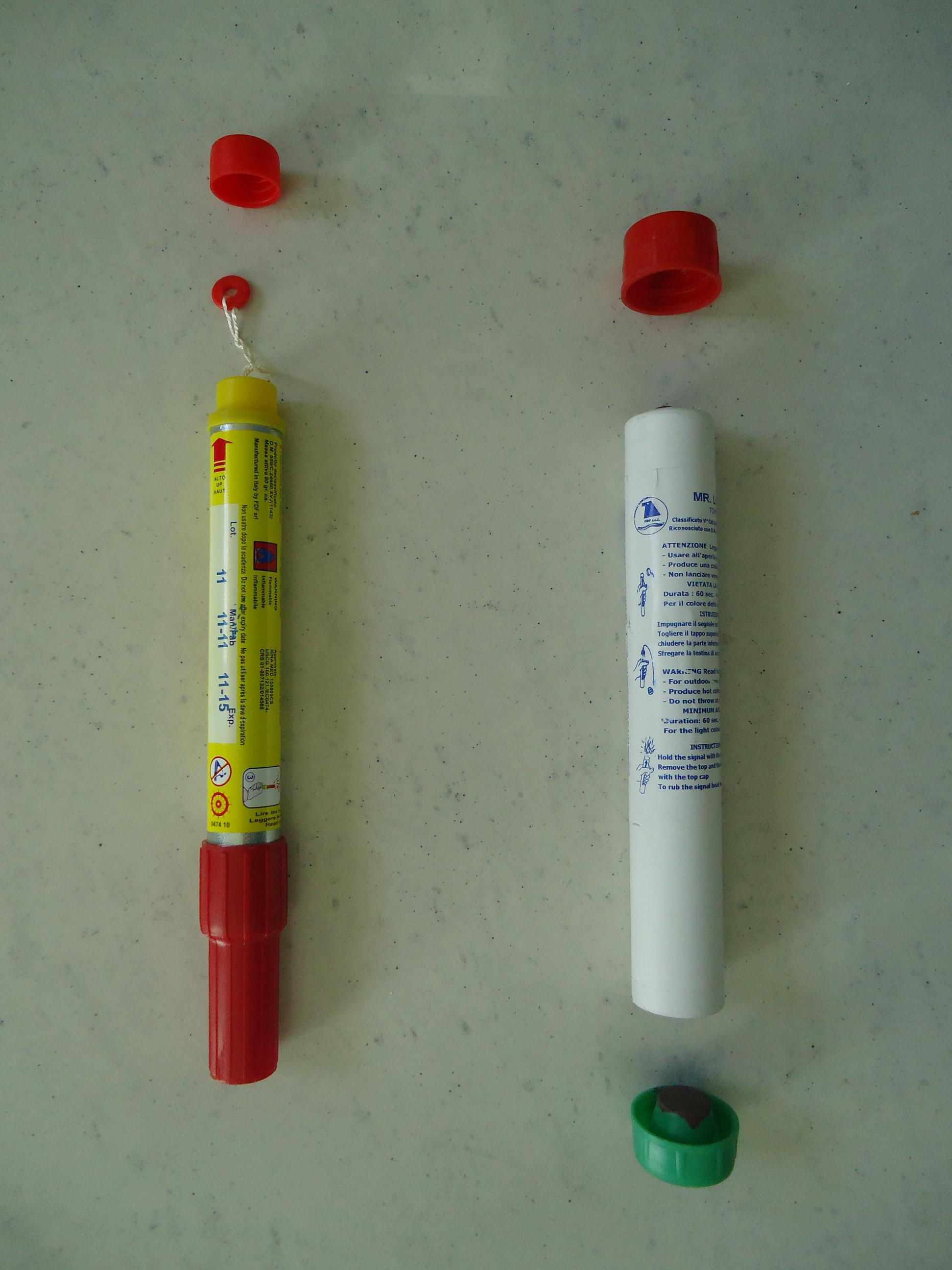 Hand flare (bengalke)